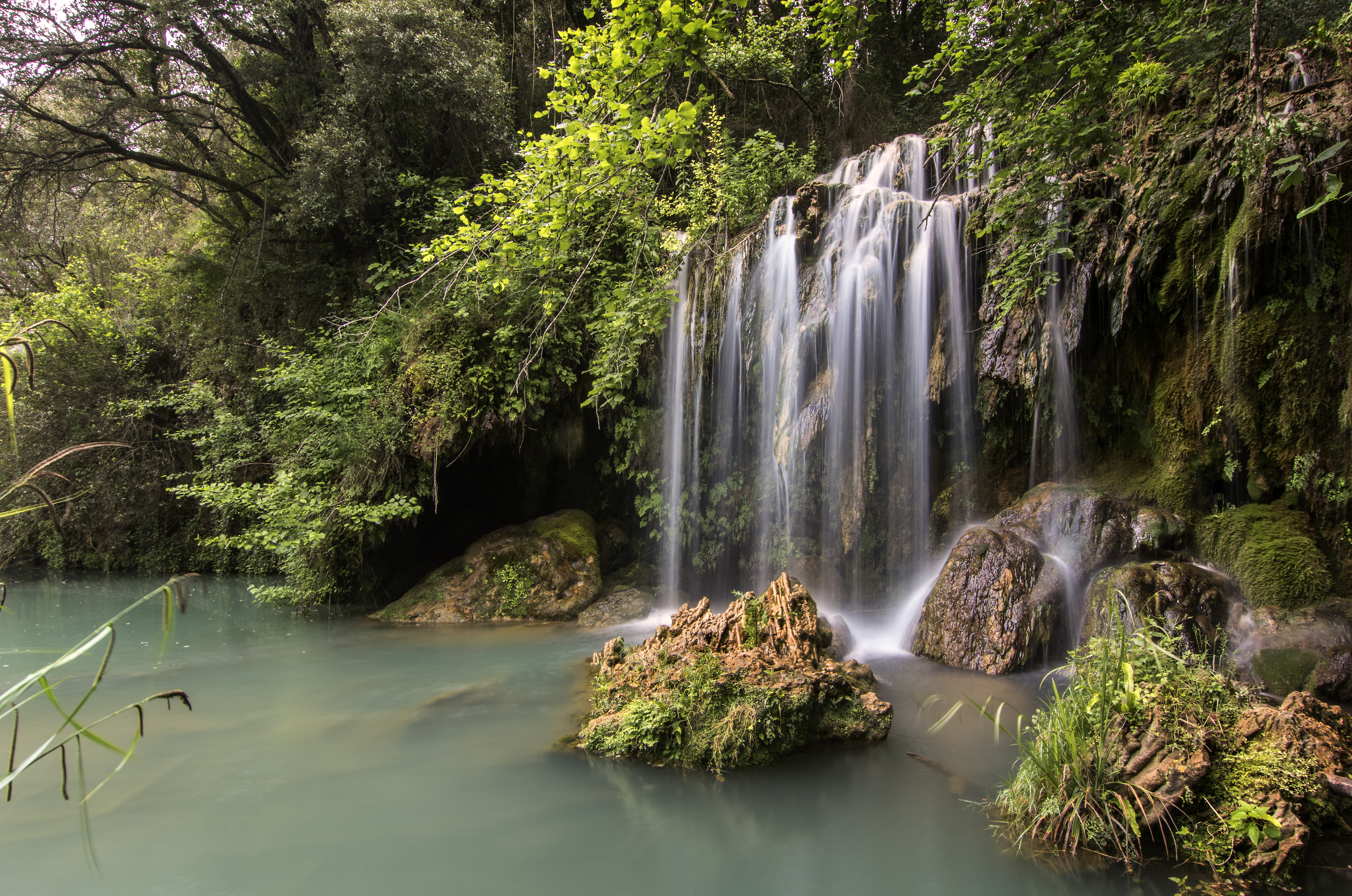 This is a photography of a Special Area of Conservation in Spain with the ID: ES5120004. Natura2000 entry, EEA entry